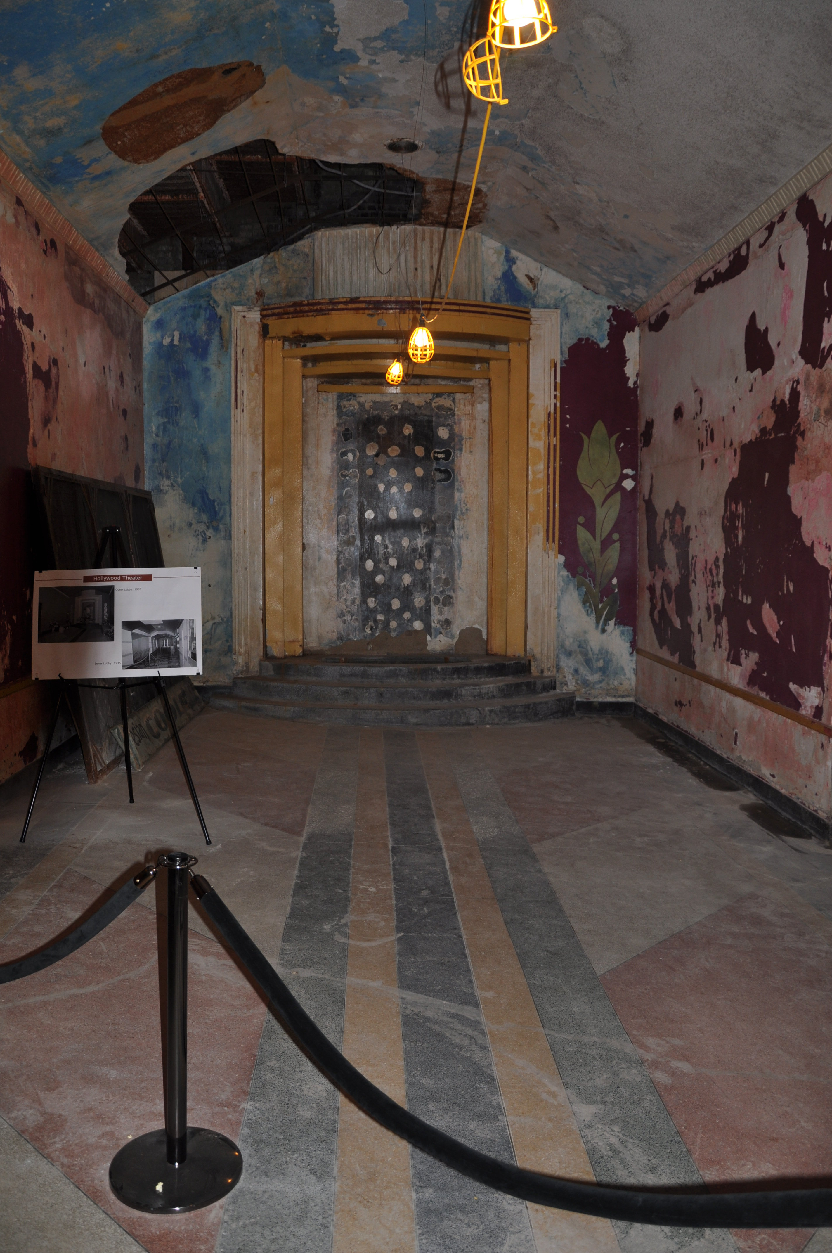 A lobby area in the Hollywood Theater, an NRHP-listed Art Deco movie theater in Northeast Minneapolis, as it appeared in May of 2010.